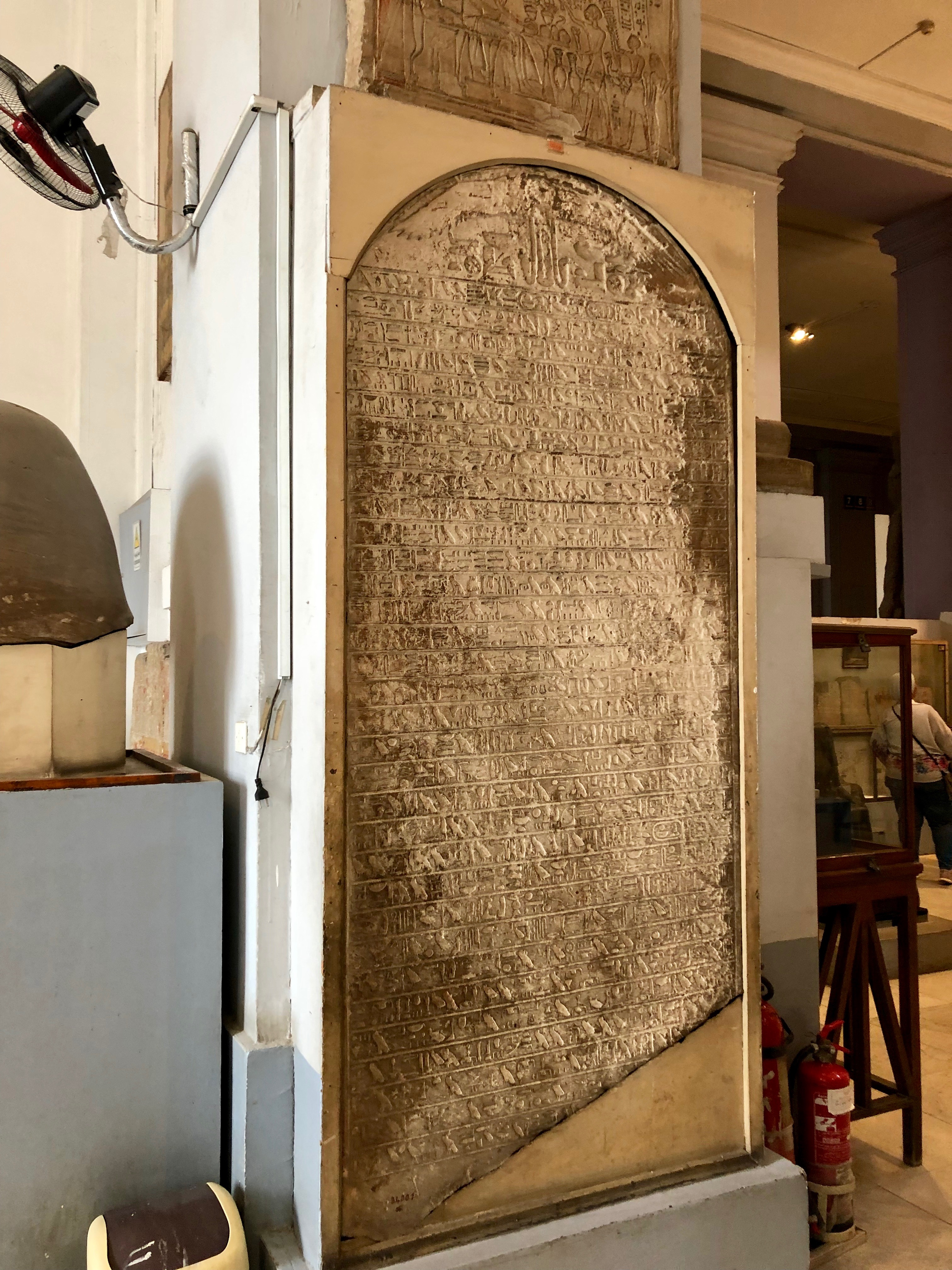 Stela Cairo CG34001 of pharaoh Ahmose I and his mother, queen Ahhotep, from Karnak. Reign of Ahmose, early 18th Dynasty, New Kingdom.